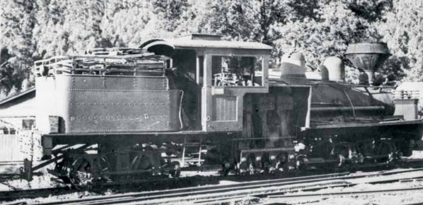 3ft gauge Shay locomotive (Lima No.2575 or 2576 of 1912) at Powelltown c.1937